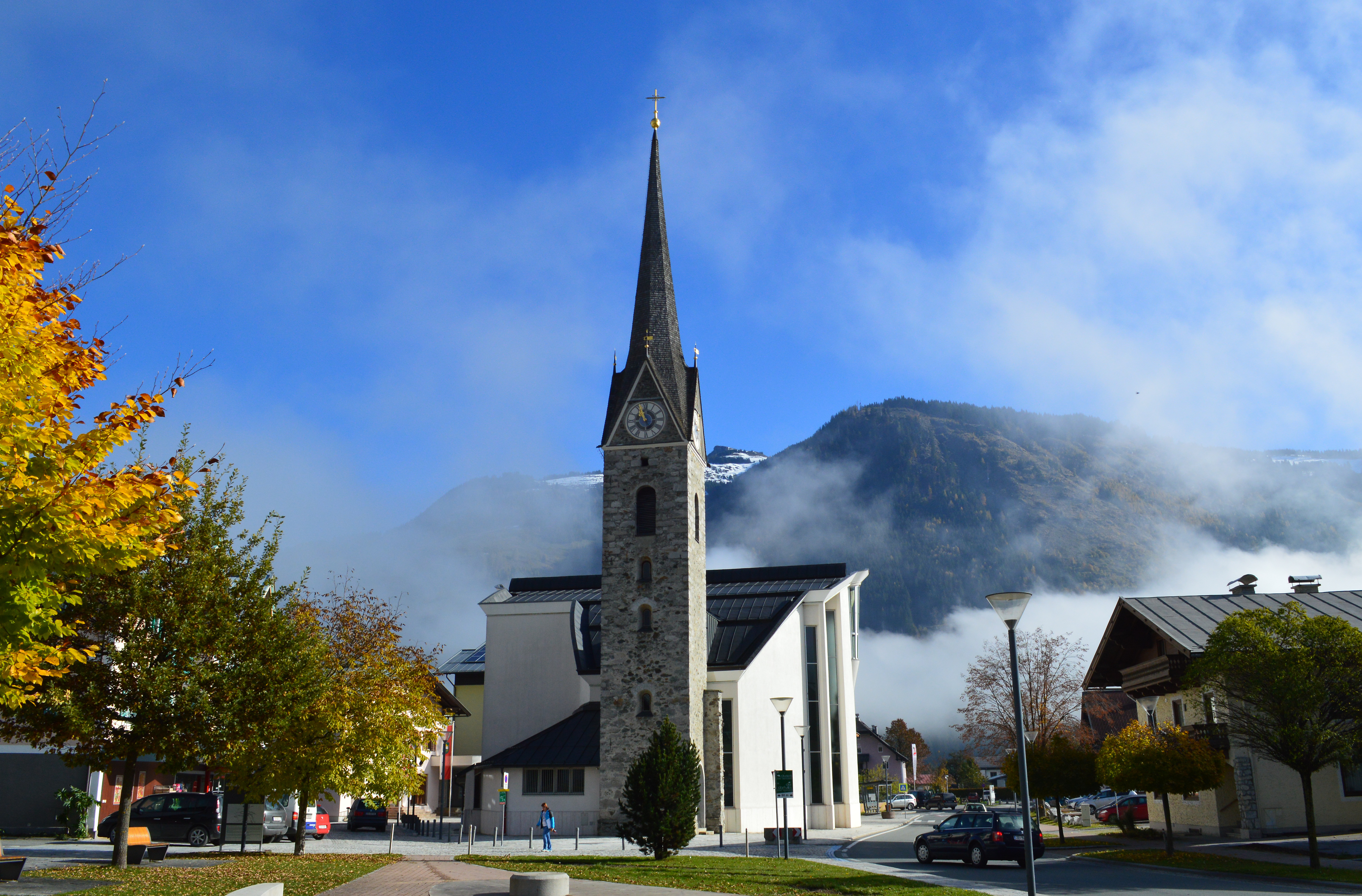 Catholic Parish Church Maishofen, Salzburg (state), Austria